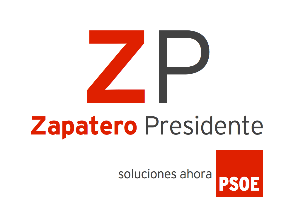 PSOE's electoral logo.